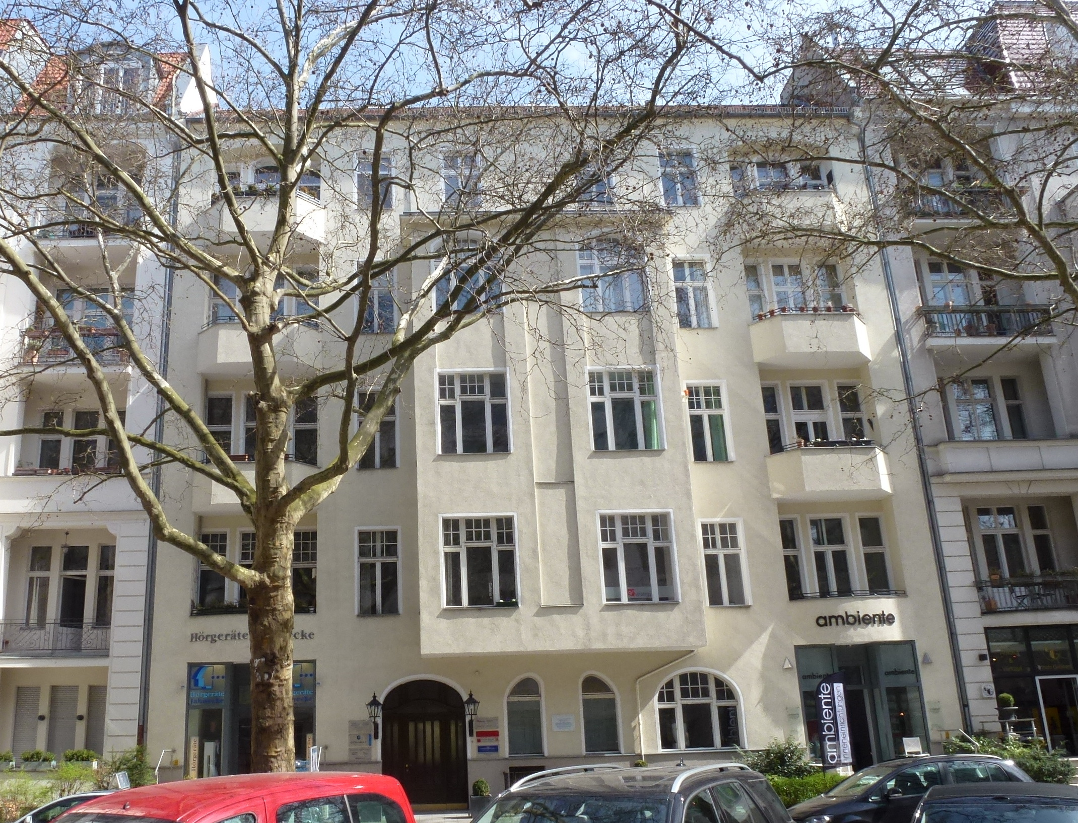 Berlin-Charlottenburg Giesebrechtstraße 11